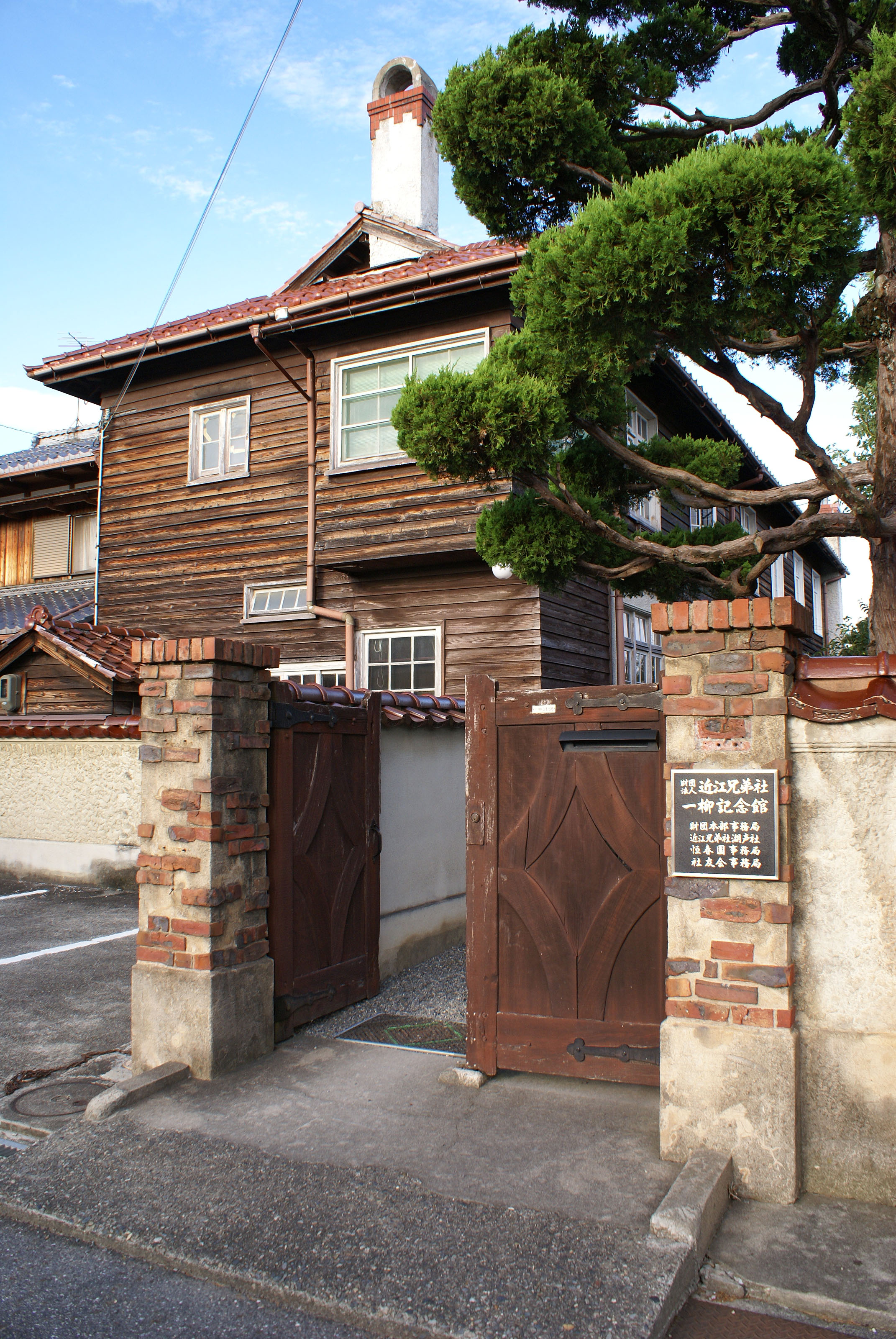 Vories memorial hall in Omihachiman, Shiga, Japan